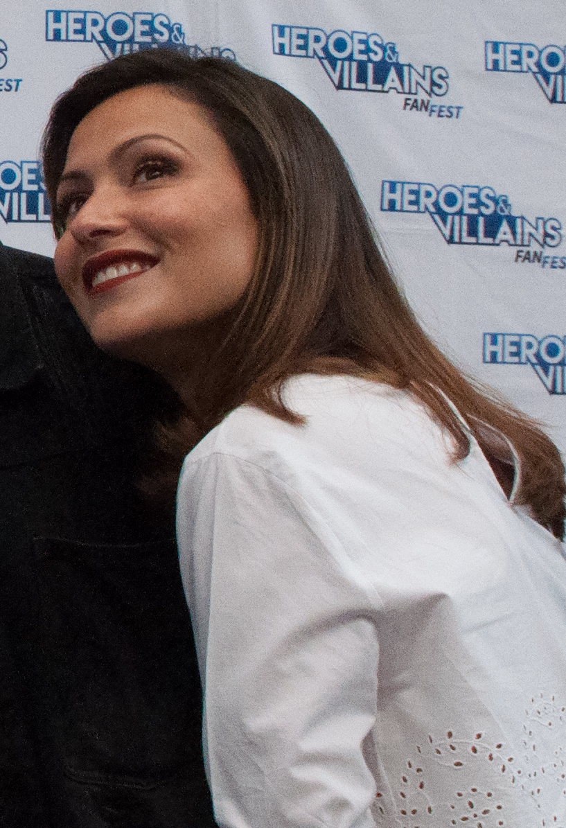 HVFFLondon2017Citizens-ALS-73